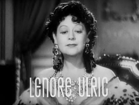 A screenshot of Lenore Ulric from the 1937 re-issue trailer for the film Camille taken in order to show a better picture on her article. Pre 1976 trailers are in the public domain.